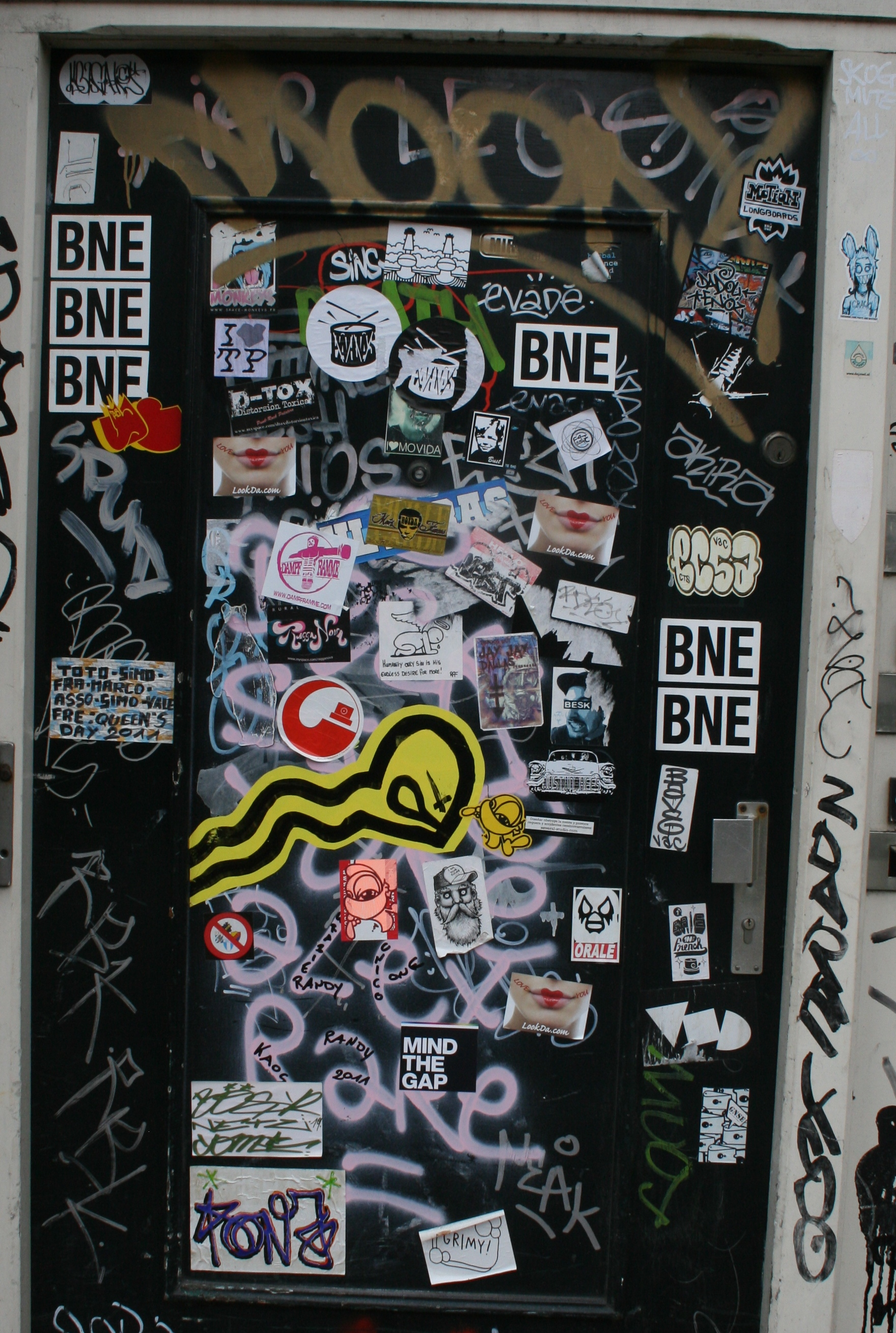 Sticker combo in Amsterdam, including BNE, I LOVE TP, Ecsa, Orale, Bave, Bust, etc.